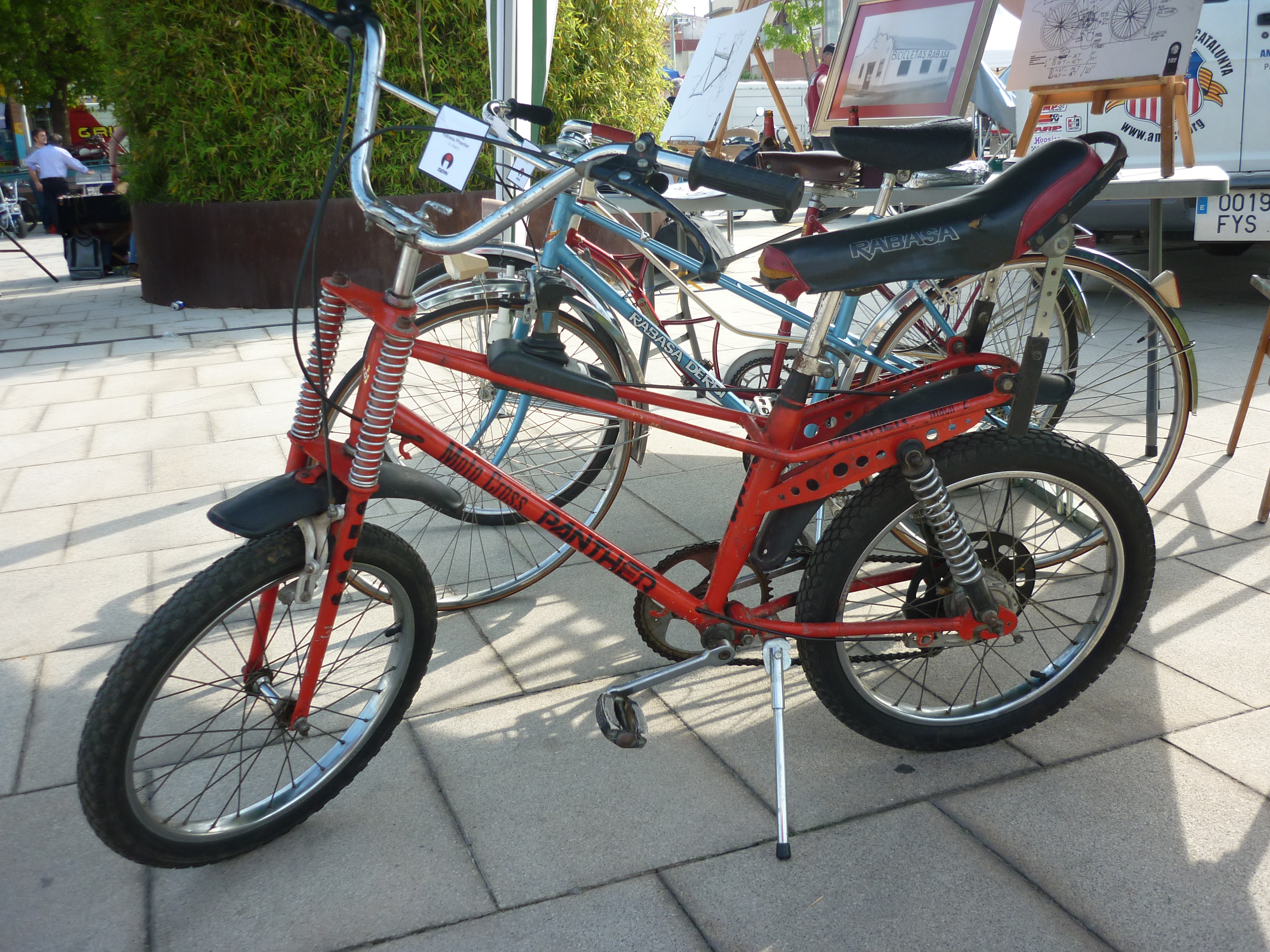 Rabasa Derbi Panther Cross by 1981